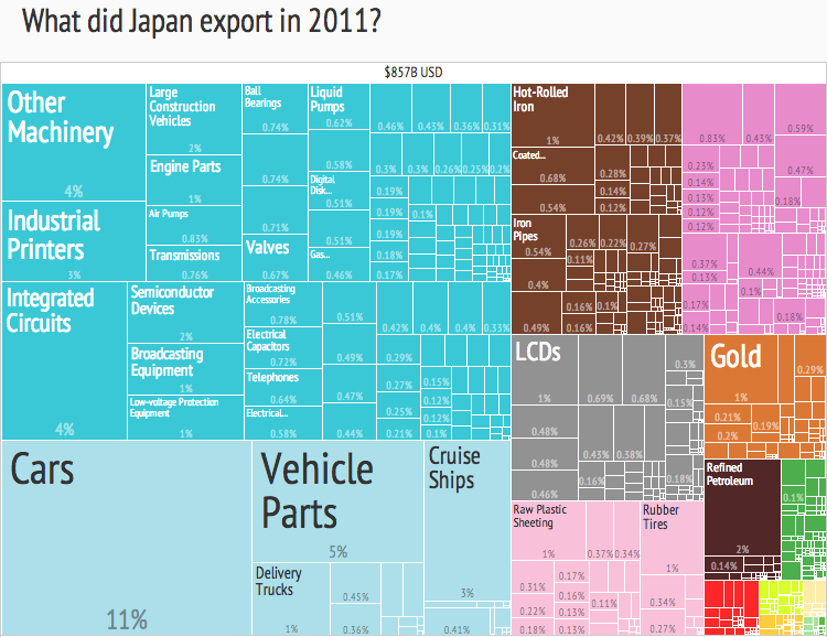 Japanese Export Treemap from MIT Harvard Atlas of Economic Complexity